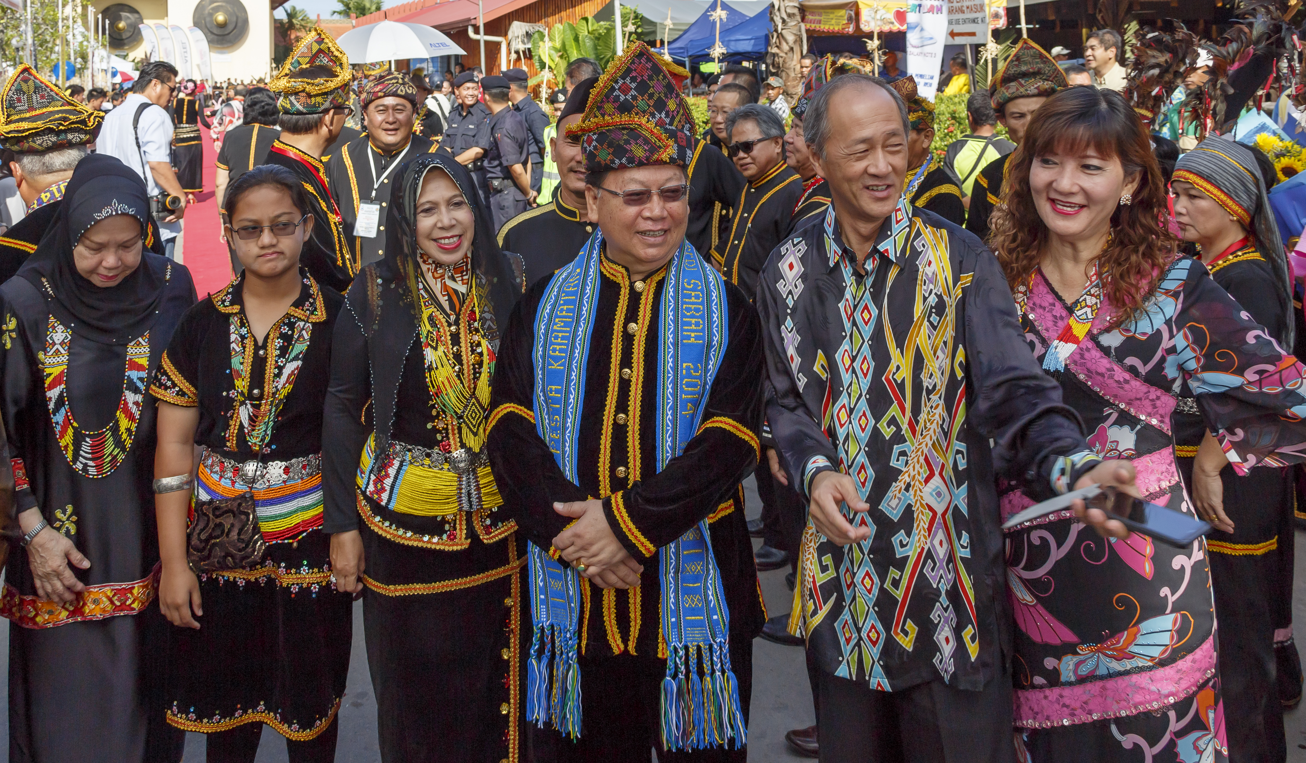 Penampang, Sabah: Dignitaries and wifes at Kaamatan 2014, grouping around Datuk Pairin Kitingan. From left to right: 1: not yet identified 2: not yet identified 3: not yet identified) 4: Datuk Joseph Pairin Kitingan, President of PBS 5: Datuk Edward Yong Oui Fah 6: Wife of Edward Yong Oui Fah